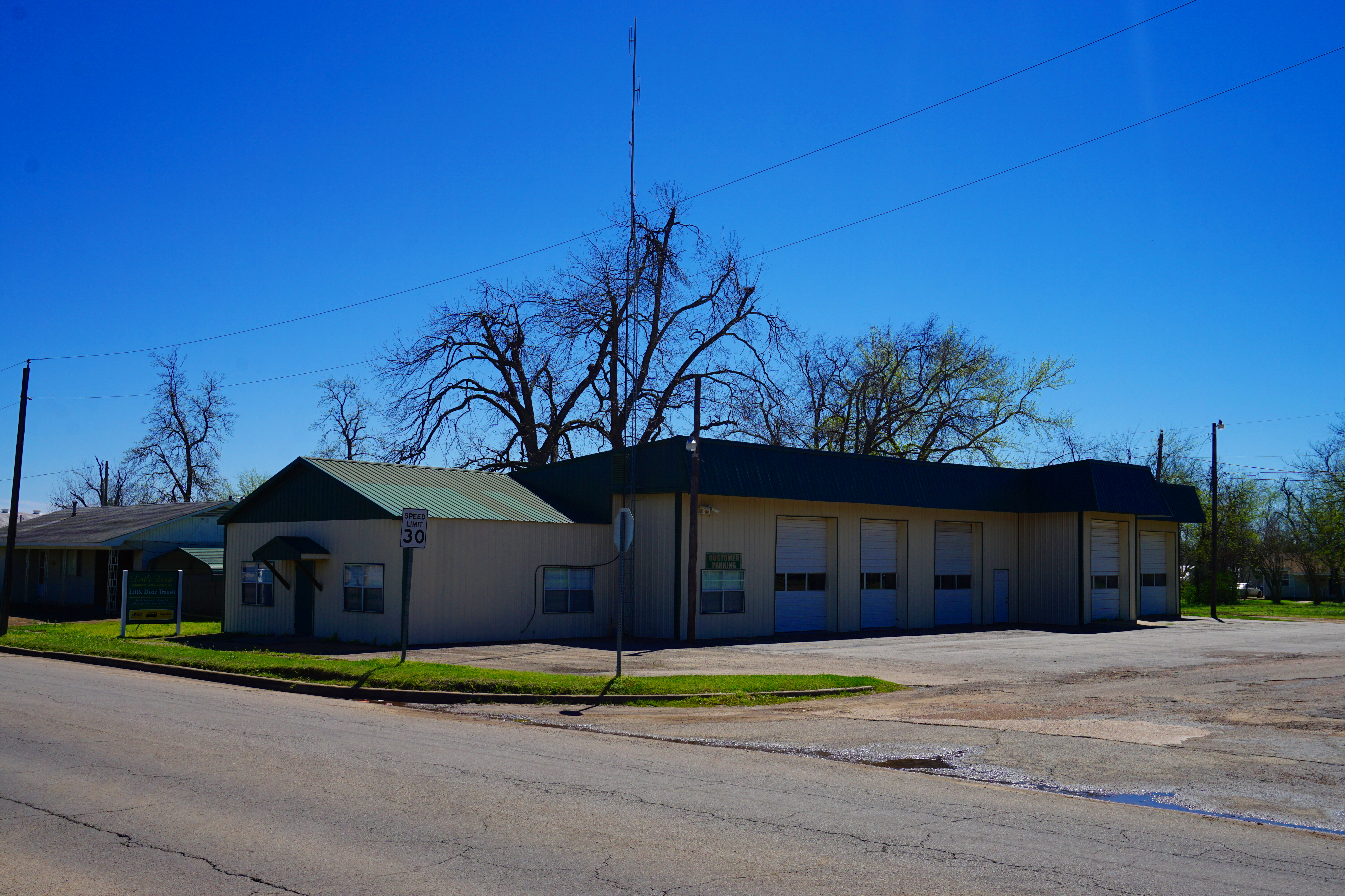 Little Dixie Transit in Hugo, Oklahoma (United States).